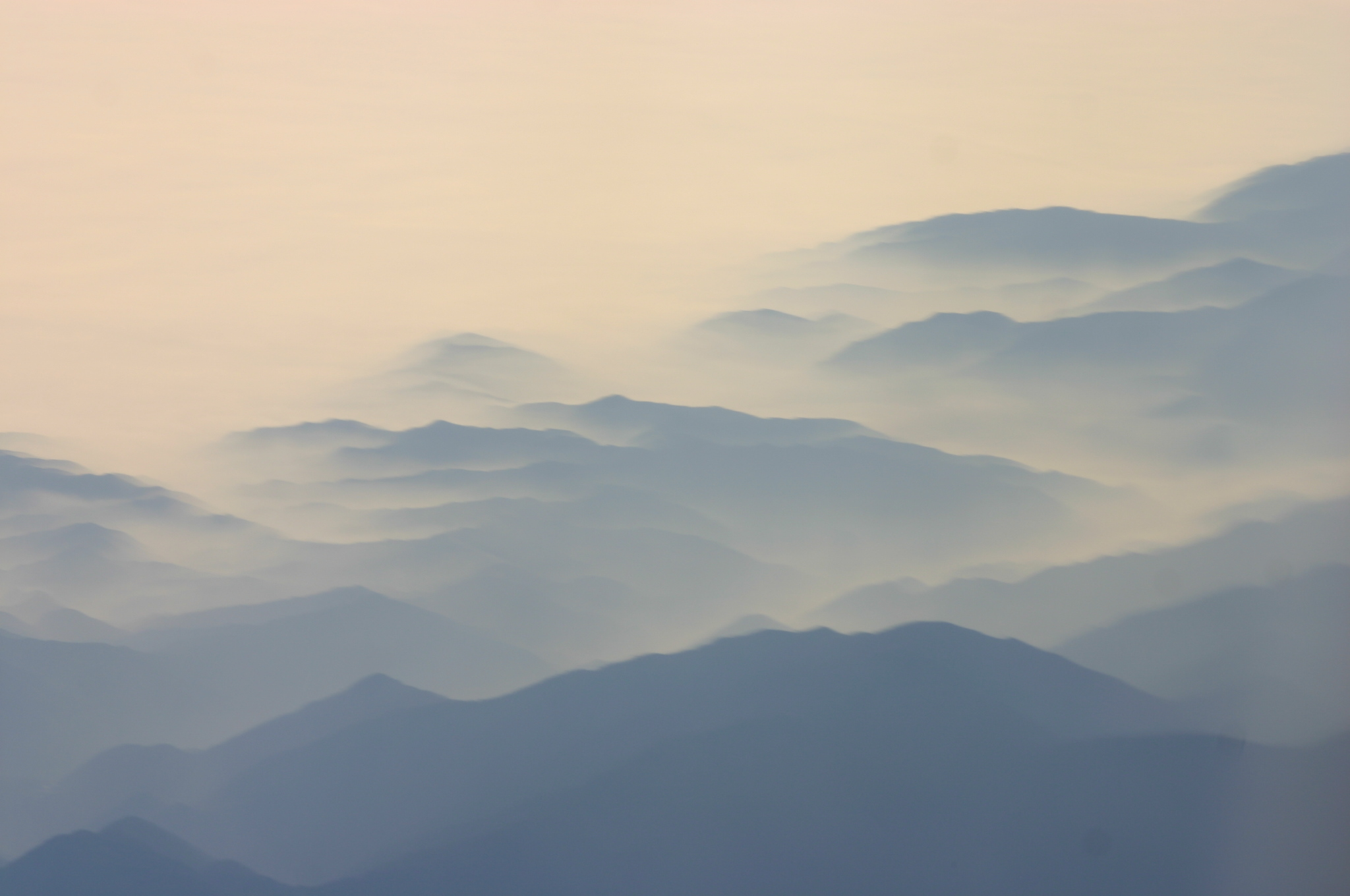 Southern California coastal Transverse Ranges covered in mist. "It looks like a traditional Chinese painting."